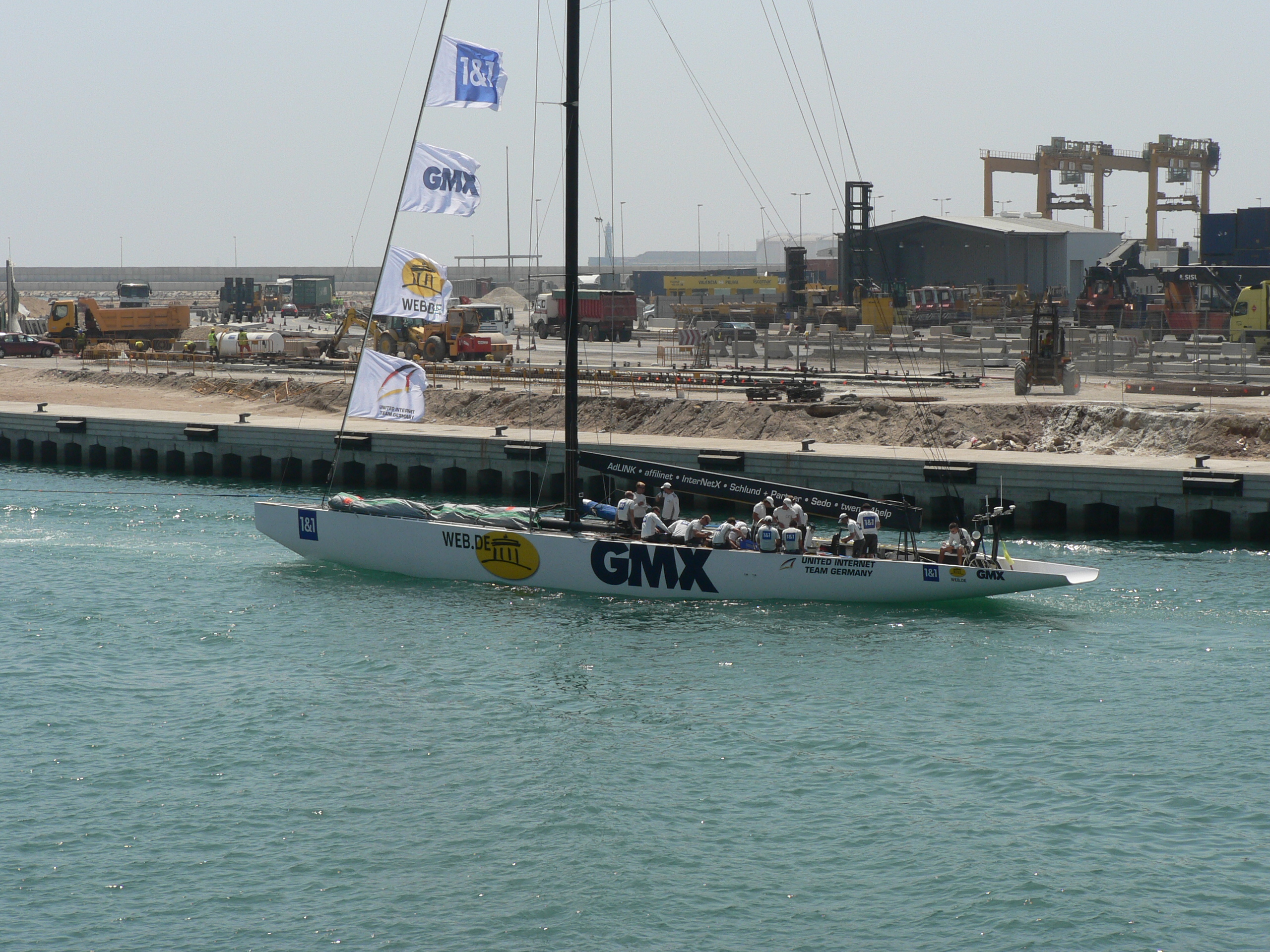 Coupe de l'America 2007 - United Internet